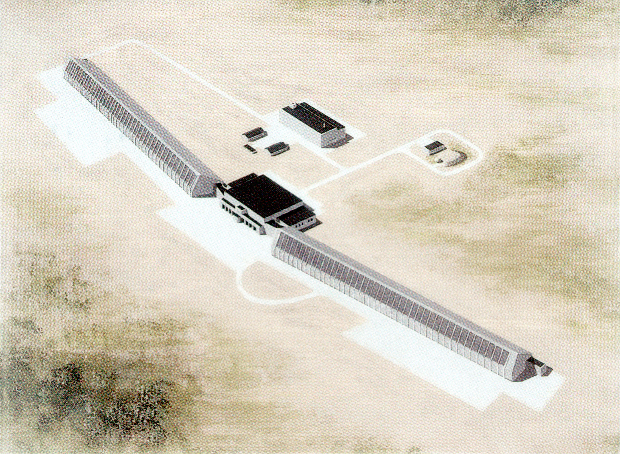 US artists drawing of a Soviet ABM "Hen House" radar. This is a Dnepr I think due to the slight V shape.